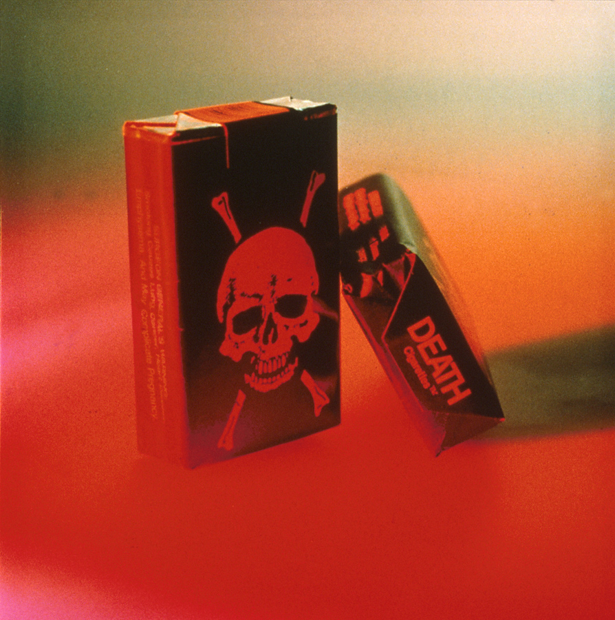 Title: Causes: Cigarettes: Death Cigarettes Description: This photo of death cigarettes (JNCI, May 20 1992 "Death Cigarettes Offer Truth in Advertising", Mathews, J.) Subjects (names): Topics/Categories: Causes -- Tobacco Type: Color Print Source: National Cancer Institute Author: Bill Branson (photographer) AV Number: AV-9205-3910 Date Created: May 1992 Date Added: 1/1/2001 Reuse Restrictions: None - This image is in the public domain and can be freely reused. Please credit the source and/or author listed above.